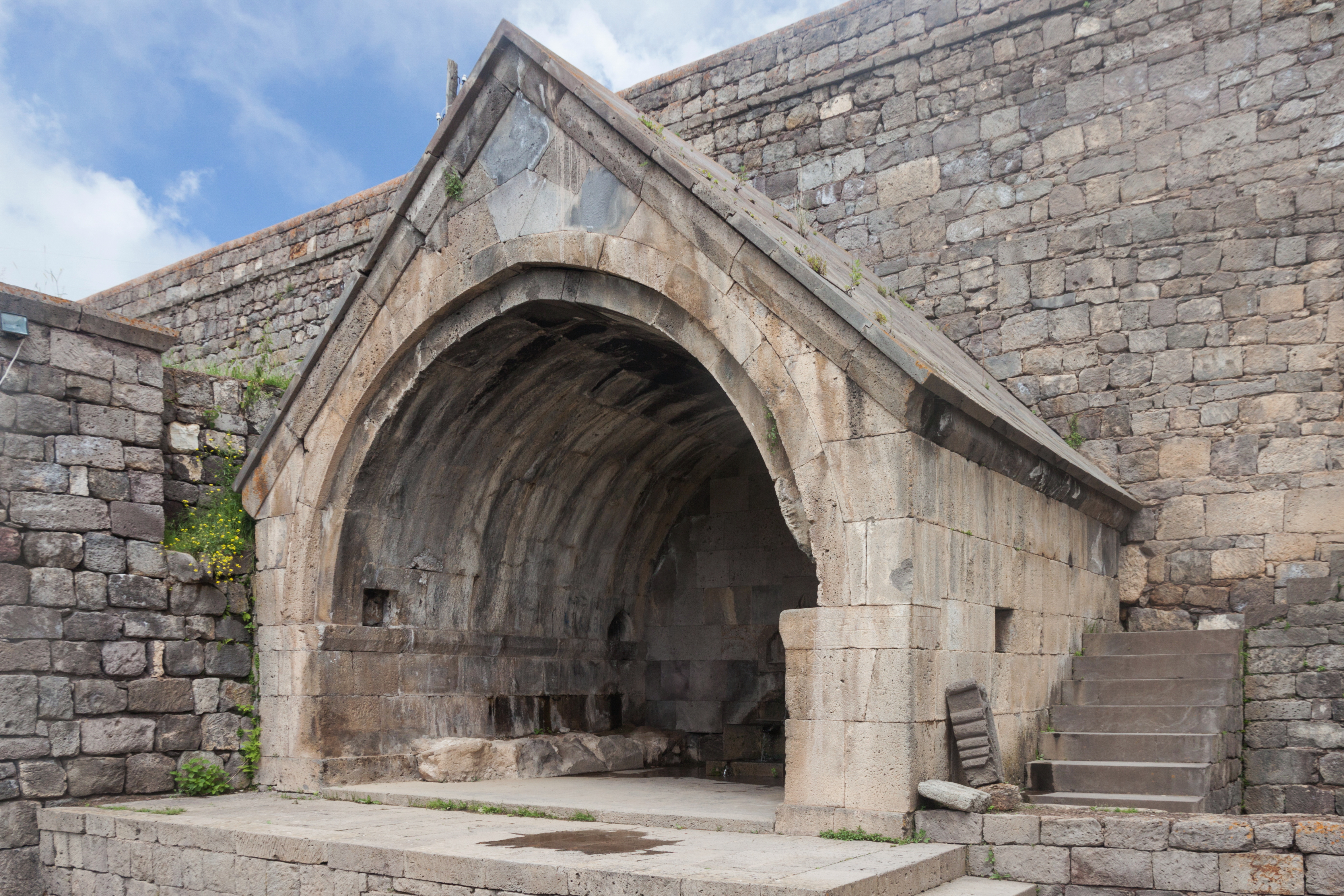 Tatev monastery. Tatev, Syunik Province, Armenia.